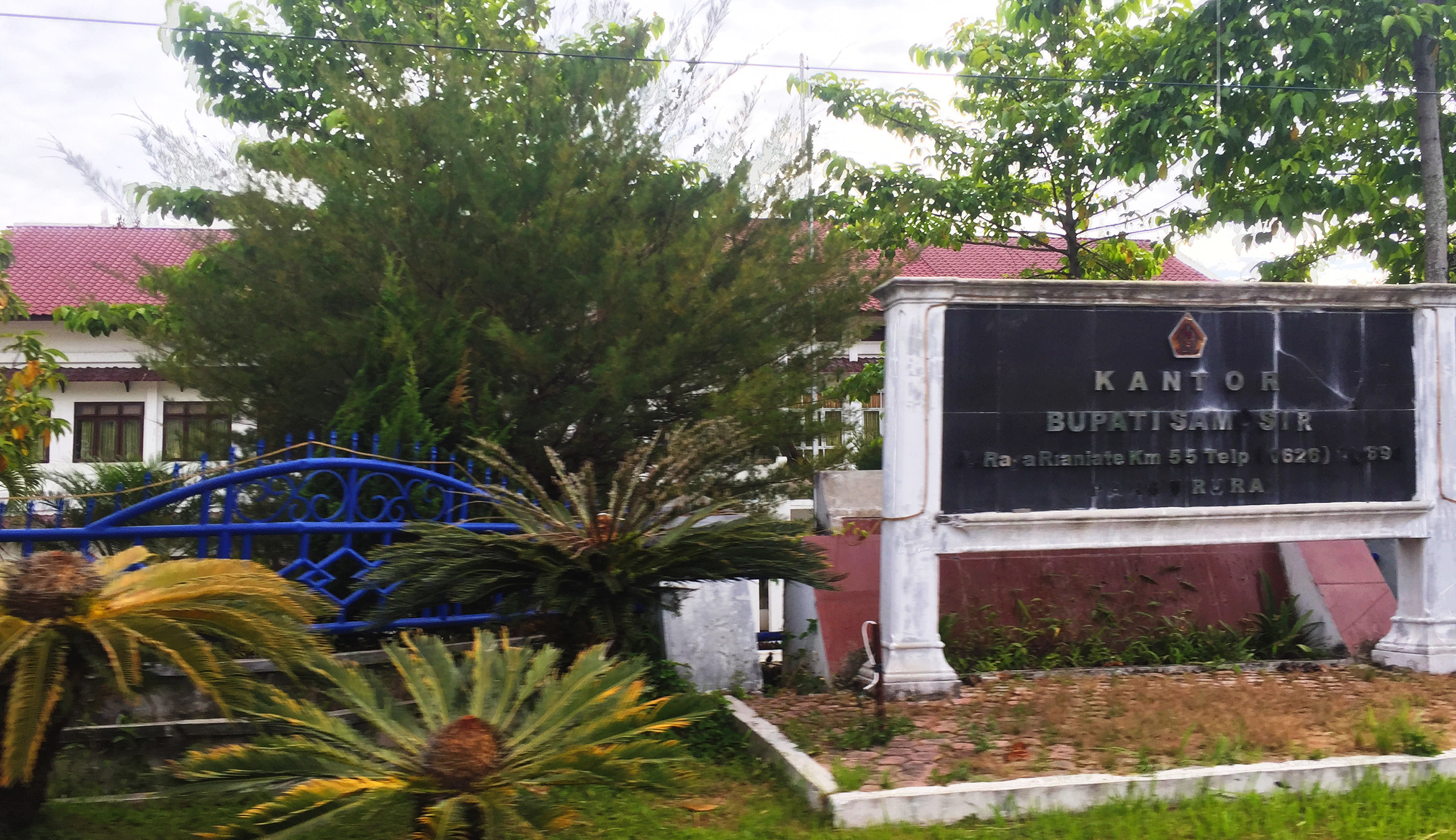 office of Samosir regency, north Sumatra